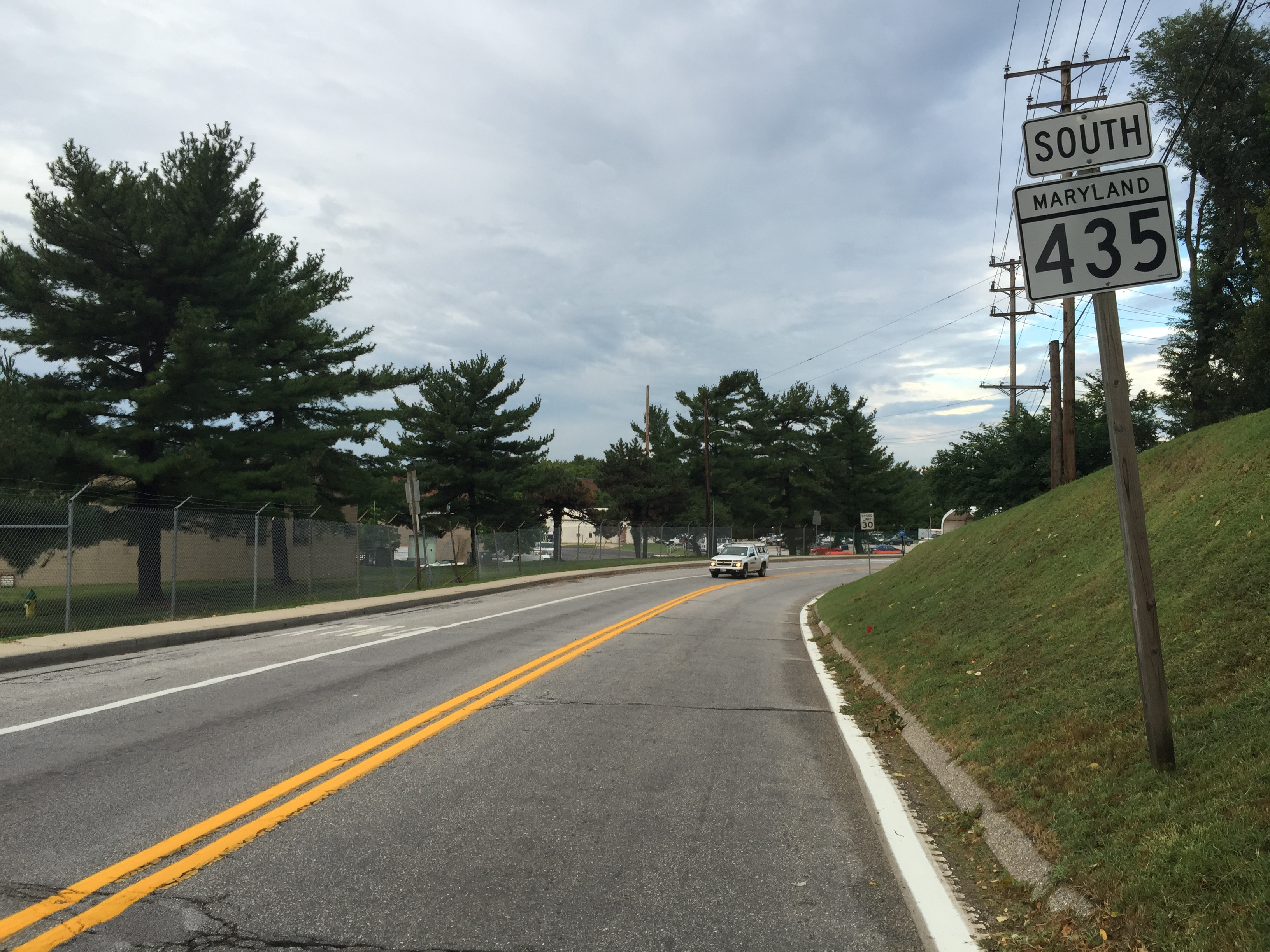 View south along Maryland State Route 435 (Baltimore Boulevard) at Maryland State Route 450 (King George Drive) in Annapolis, Anne Arundel County, Maryland